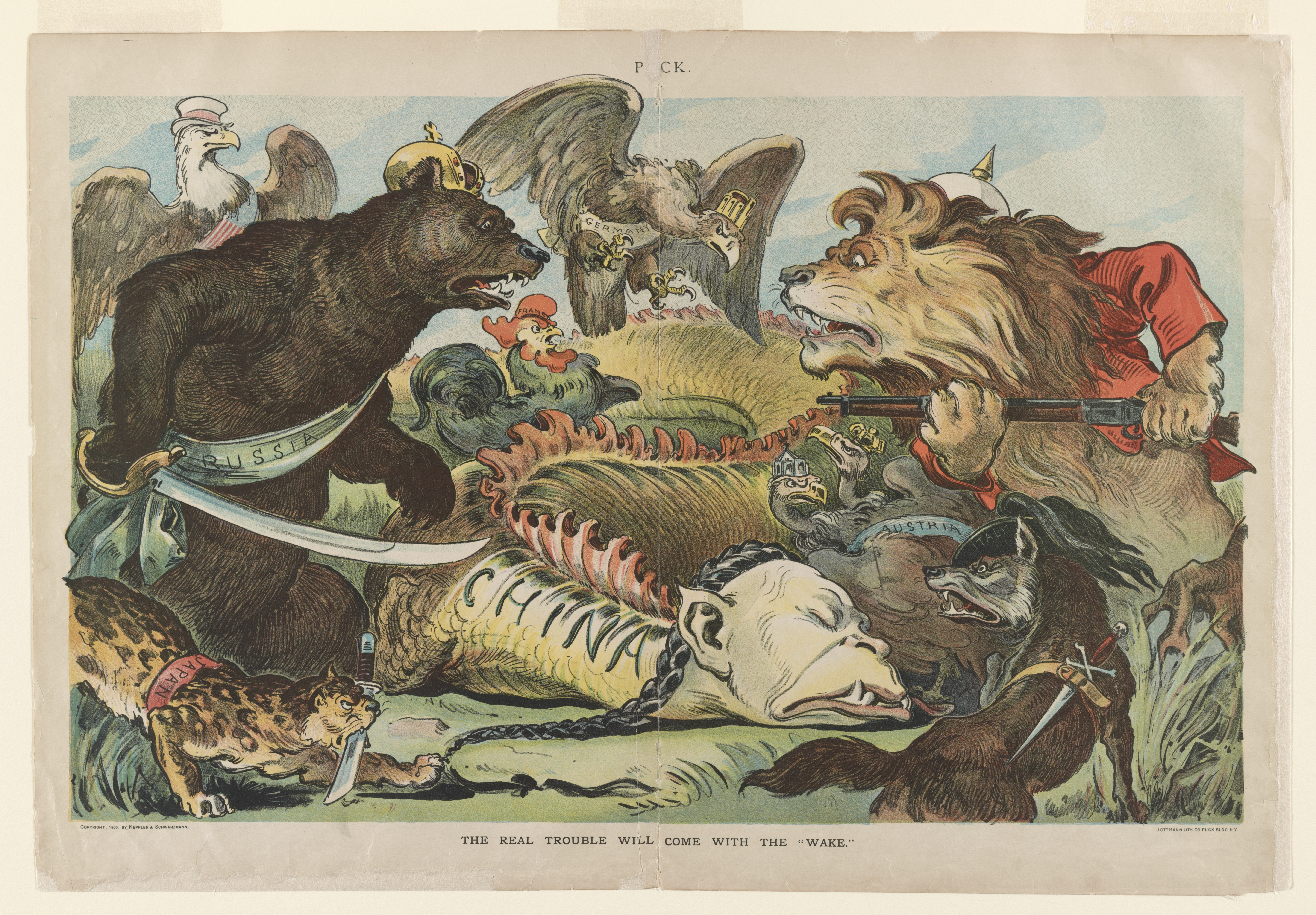 Title: The real trouble will come with the "wake" / J. Ottmann Lith. Co. Puck Bldg. N.Y. Abstract/medium: 1 print : color lithograph ; sheet 35 x 51 cm.